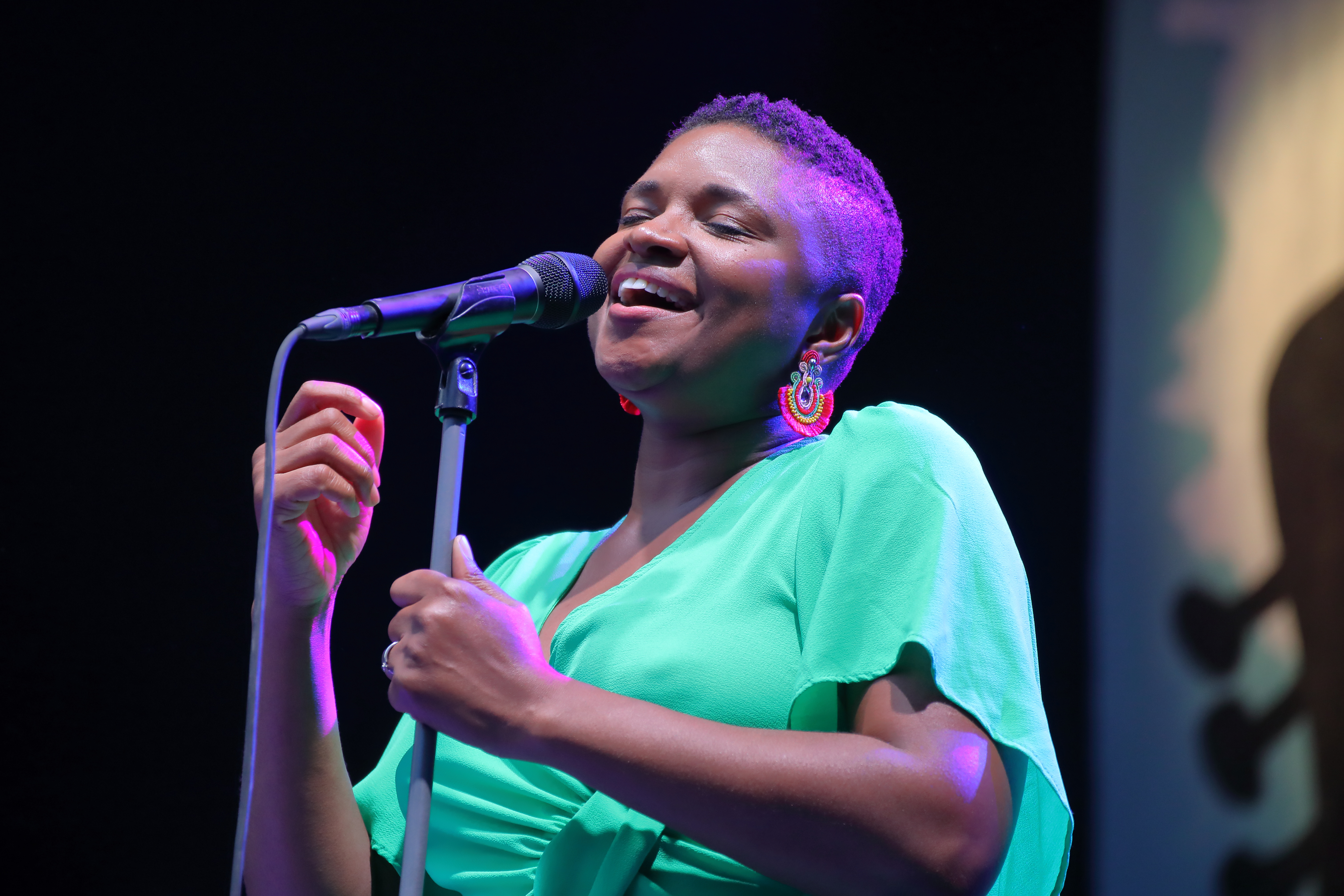 Lizz Wright with Angelique Kidjo and Cécile McLorin Salvant in the collective women´s project Sing The Truth at Rudolstadt-Festival 2019.